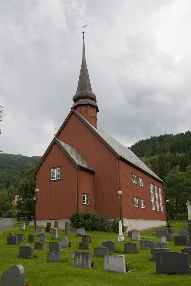 Meldal Kirke in Sør-Trøndelag, Norway